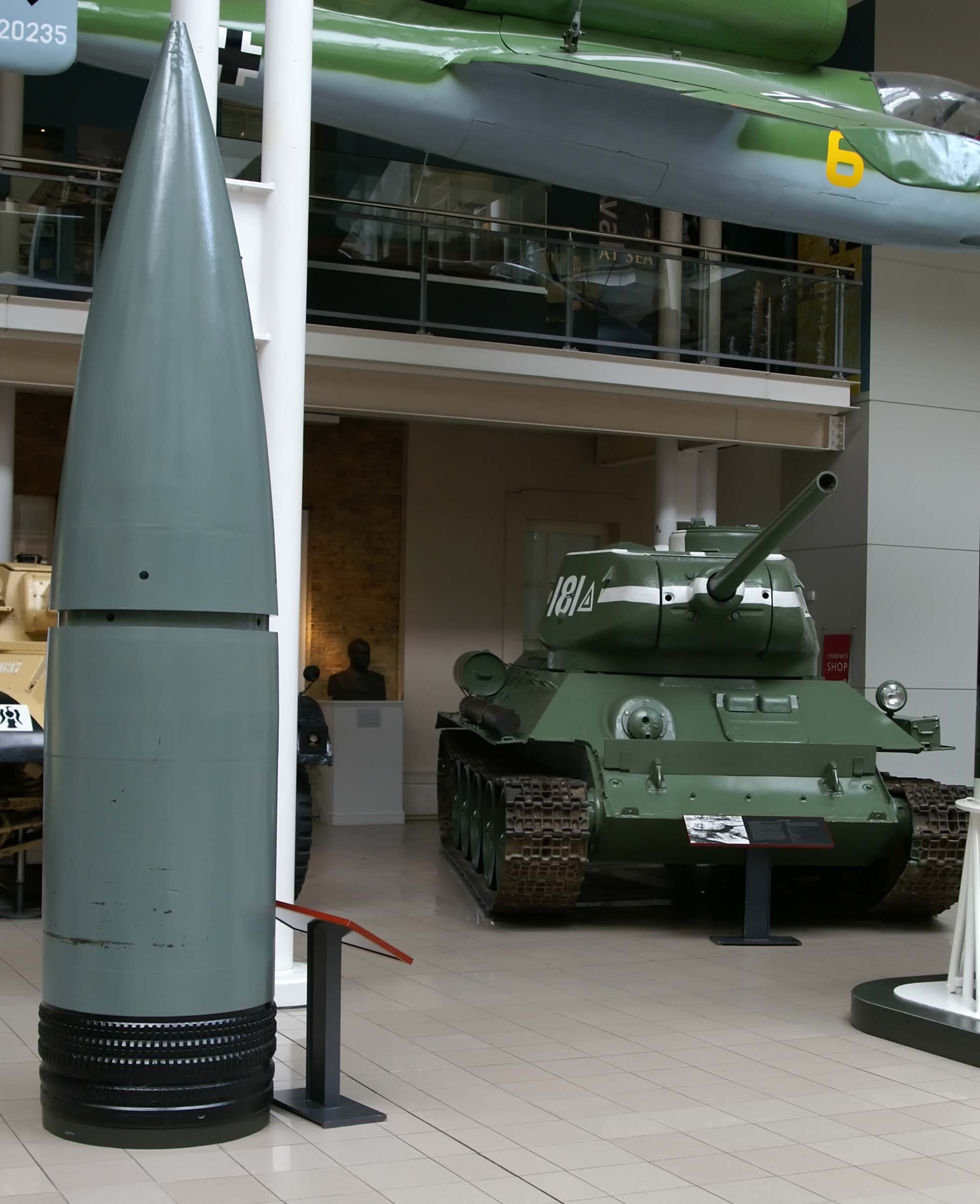 80 cm Gustav shell photographed with a T-34/85 tank to give a sense of scale at the Imperial War Museum London. Note the relative sizes of the floor tiles and plaque stand.